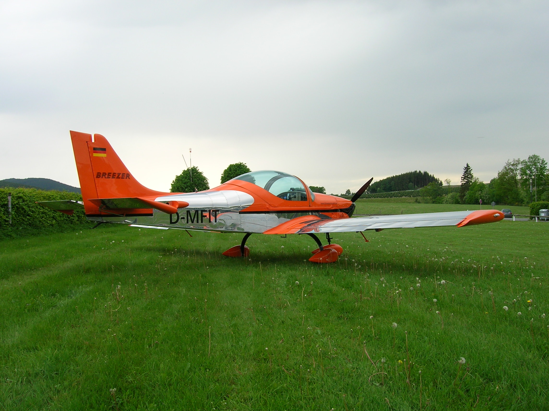 Aerostyle (Breezer Aircraft) Breezer D-MFIT at special airfield Schmallenberg-Rennefeld (Germany)